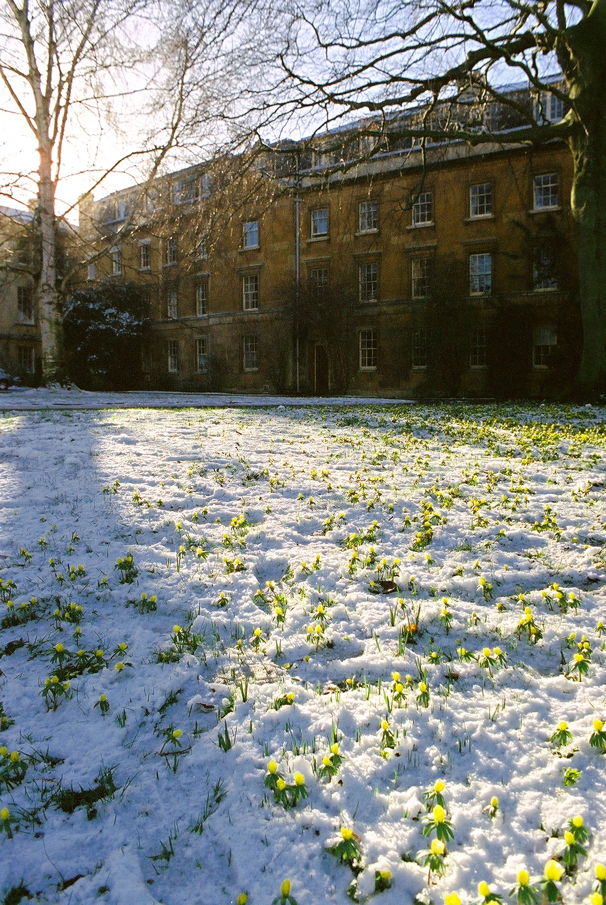 The Garden Quad under snow, Balliol College, Oxford.